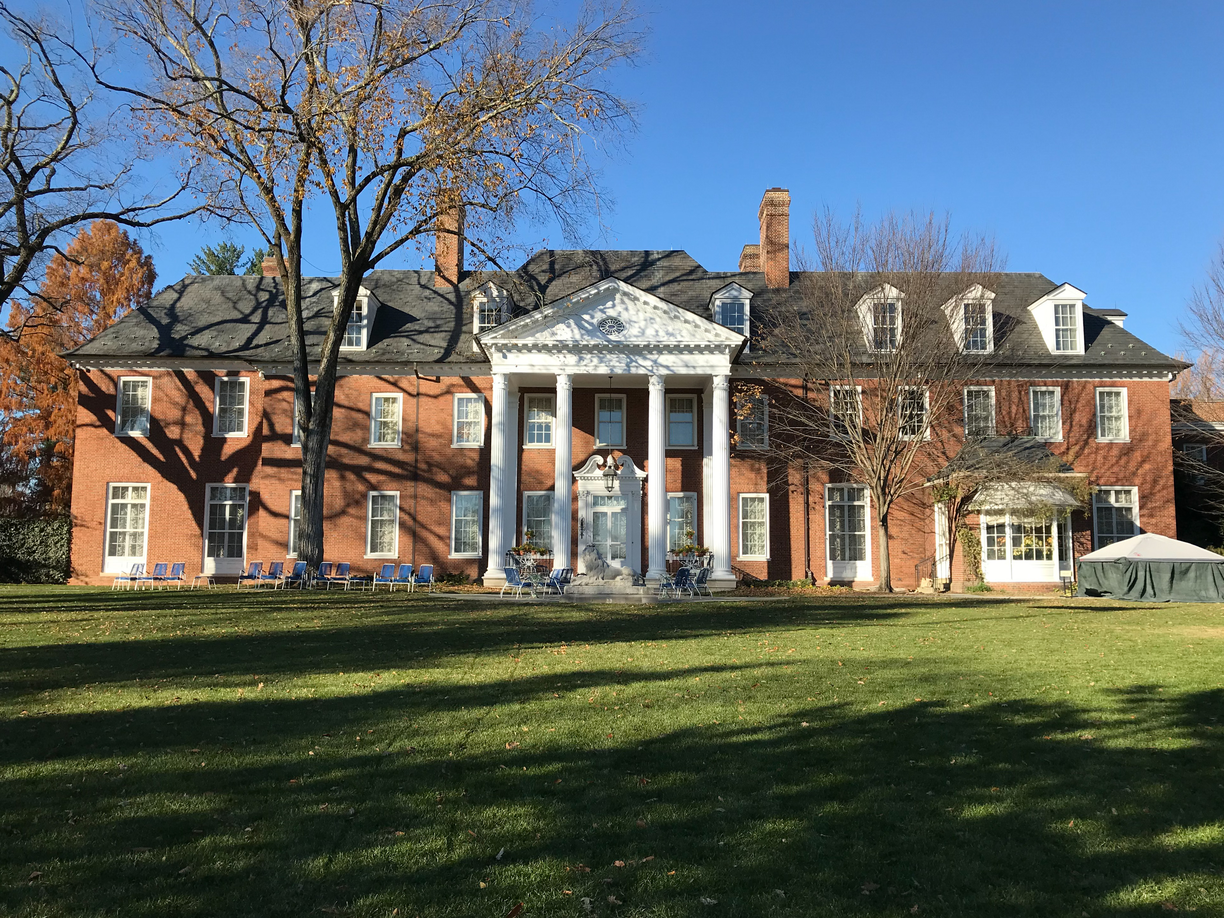 Former Washington, DC home of Marjorie Merriweather Post, now an arts museum